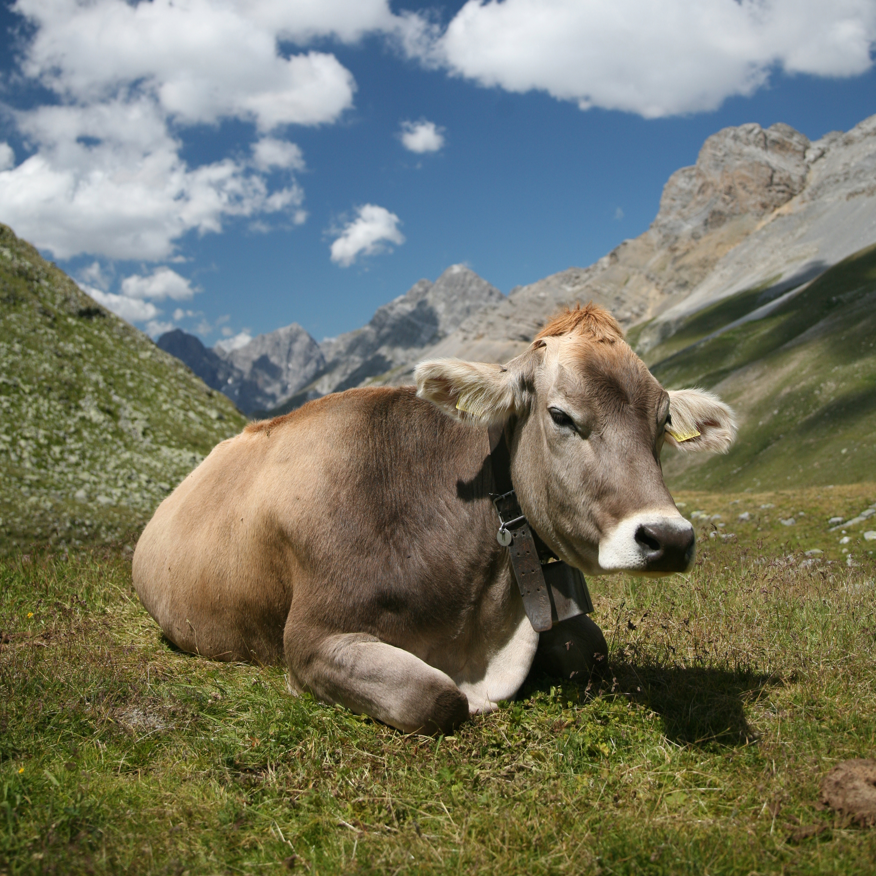 Cow (Swiss Braunvieh breed), below Fuorcla Sesvenna in the Engadin, Switzerland.